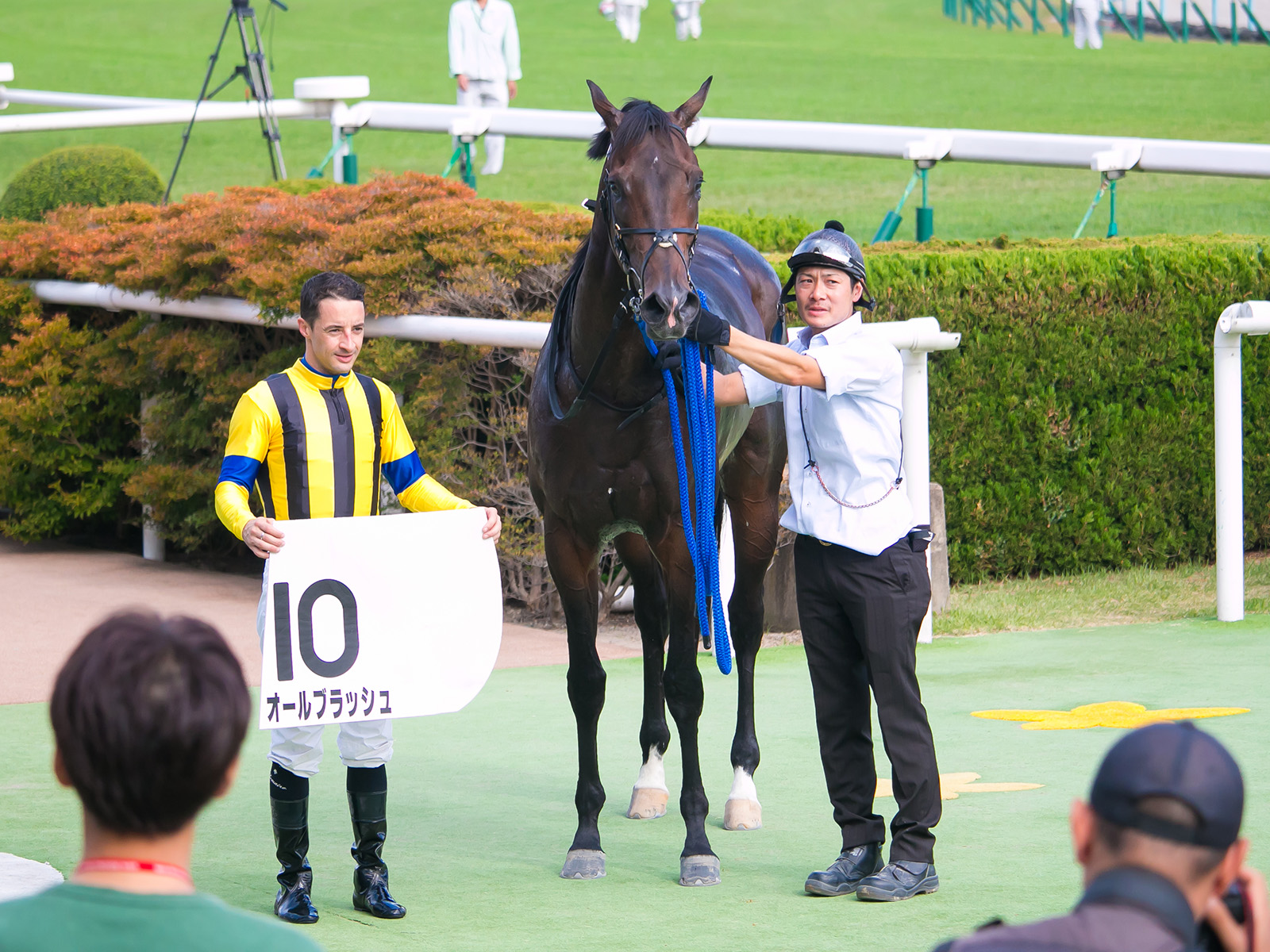 All Blush (Racehorse of Japan).